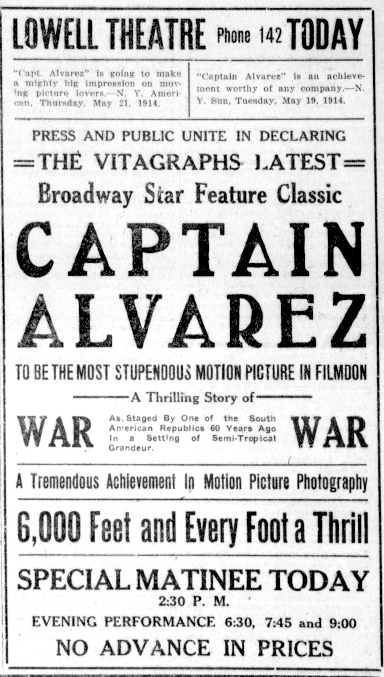 This advertisement was run on page 5 in the September 13, 1914 issue of the Bisbee Daily Review for the 1914 silent film Captain Alvarez.